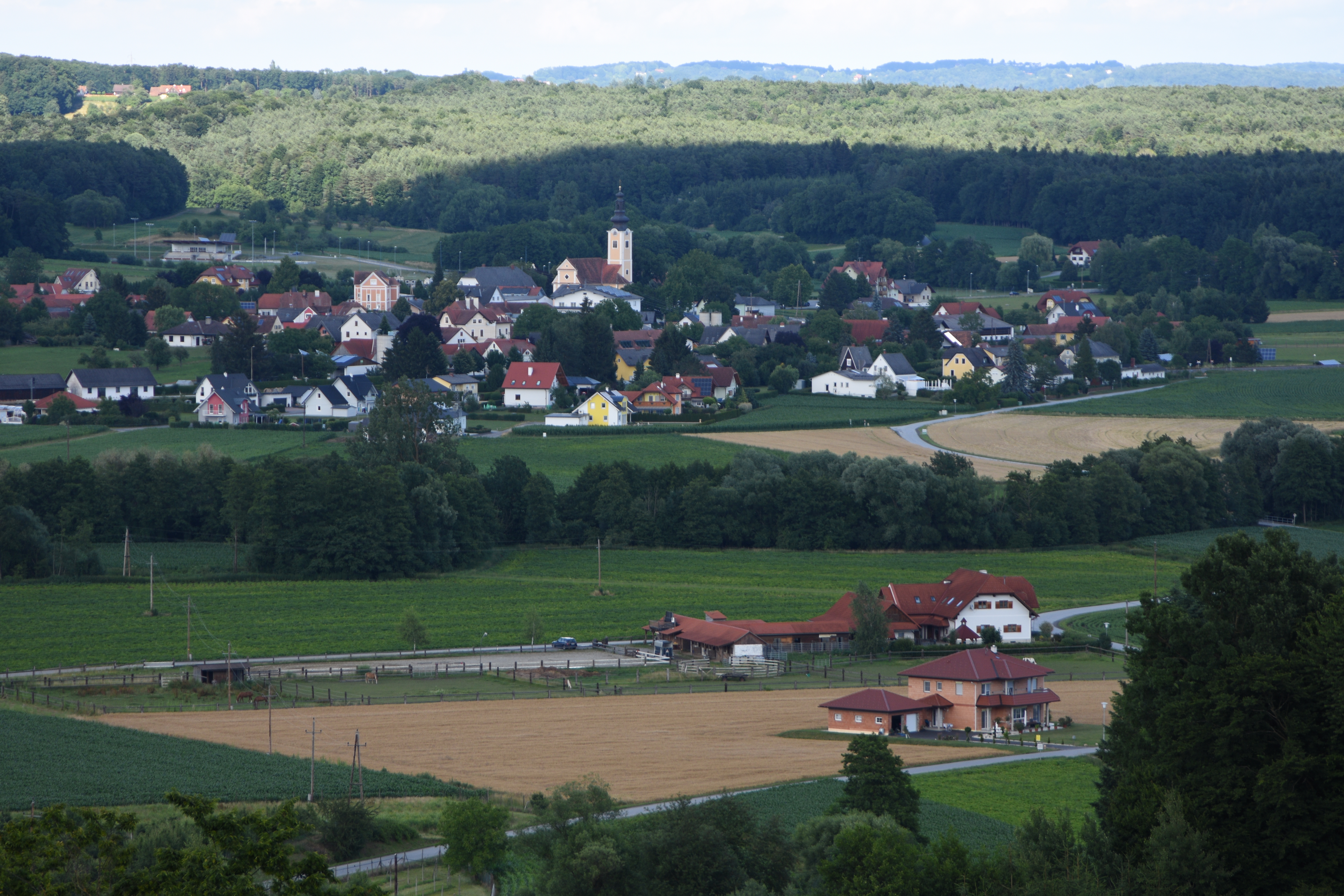 Söchau